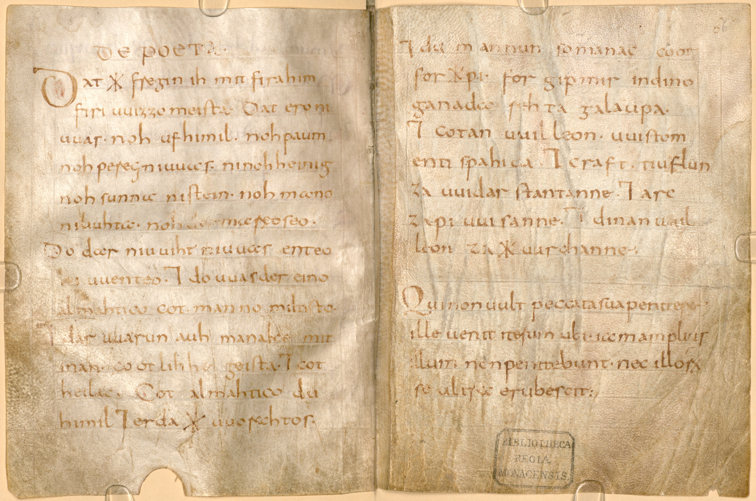 Text of Wessobrunner Gebet, composite page spread based on the 2008 scans published by the Bavarian State Library.